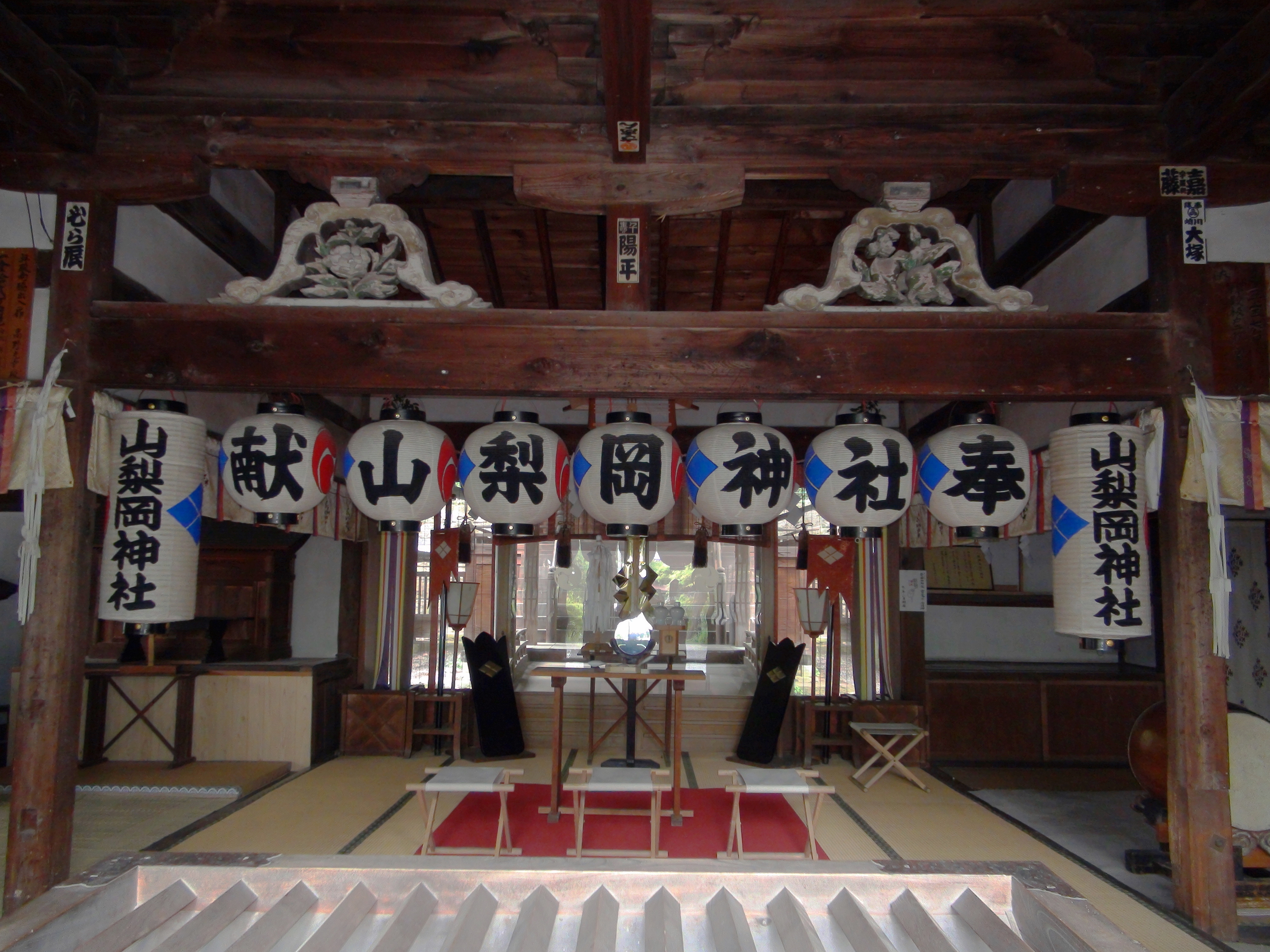 The inside of Yamanashioka shrine